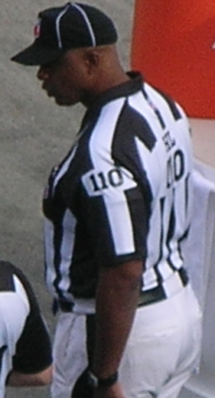 Head Linesman Phil McKinnely prior to a game at the Oakland Coliseum between the Oakland Raiders and Atlanta Falcons. The Falcons won 24-0.